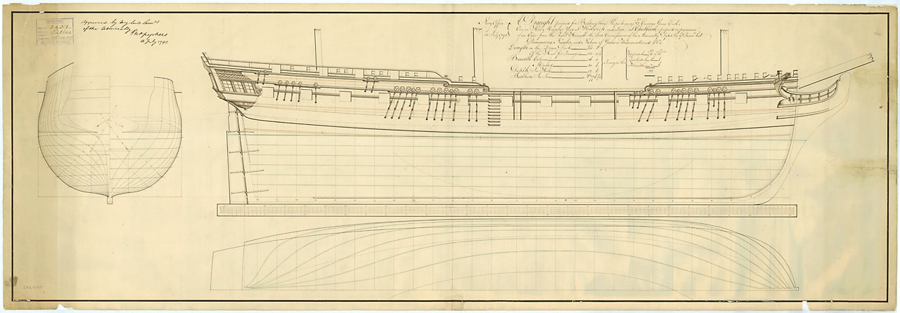 Pallas (1793), Stag (1793), Unicorn (1734) Scale 1:48. Plan showing the body plan, sheer lines, longitudinal half-breadth as proposed (and approved) for building Pallas (1793), Stag (1793), Unicorn (1734), all 32-gun, Fifth Rate Frigates. PALLAS 1793